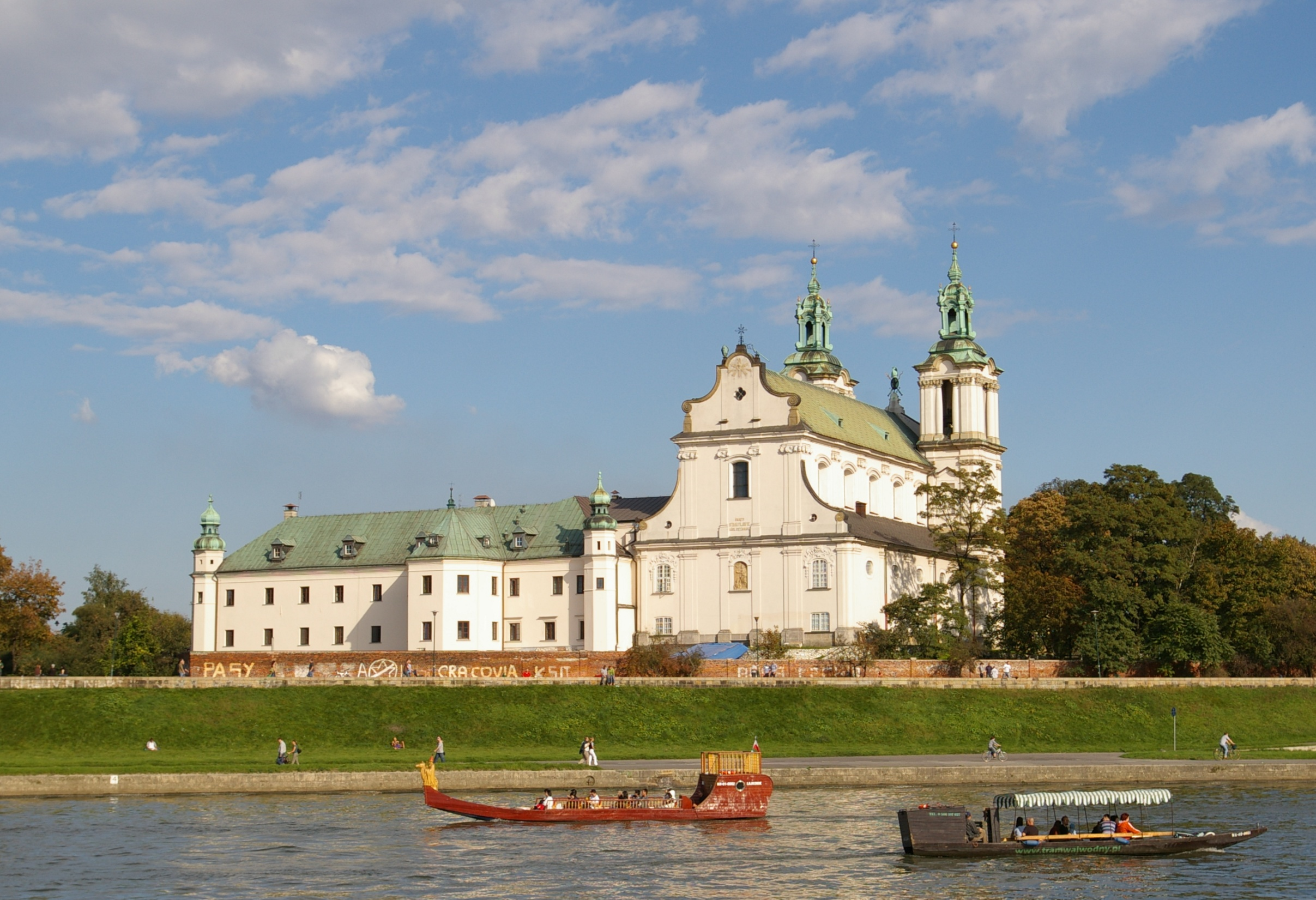 St. Stanislaus church in Kraków